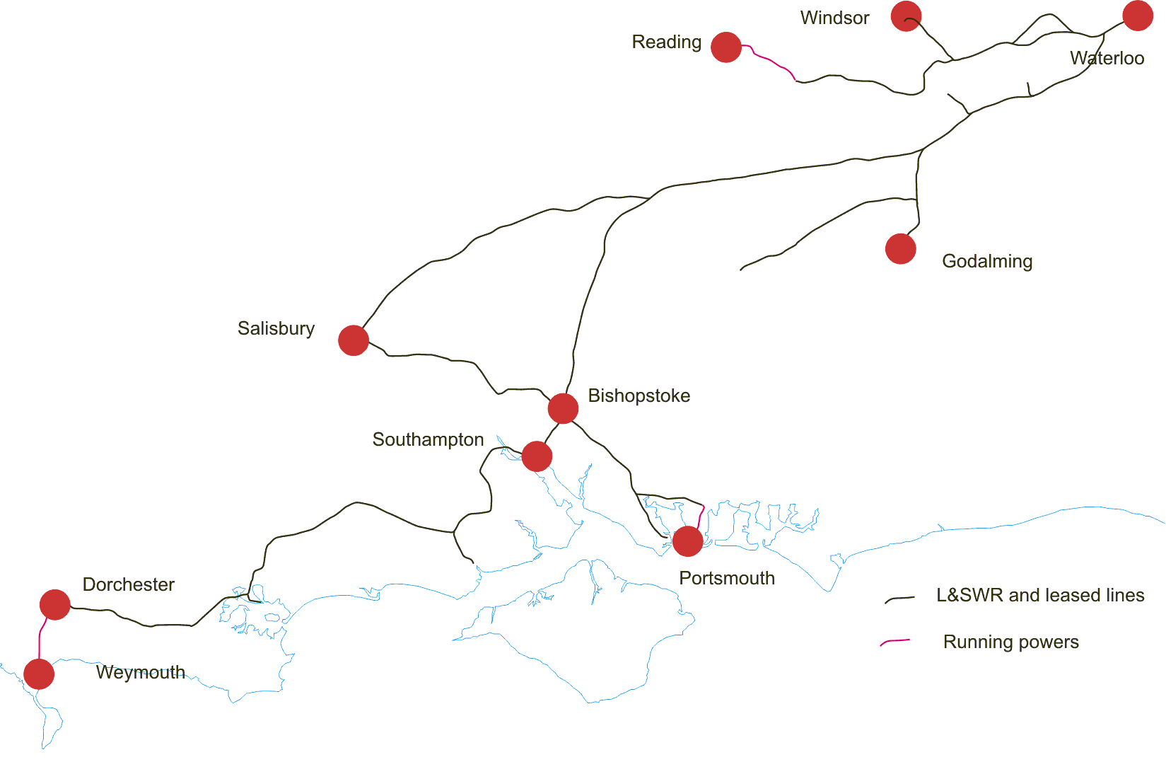 Map of the L&SWR system at 1858